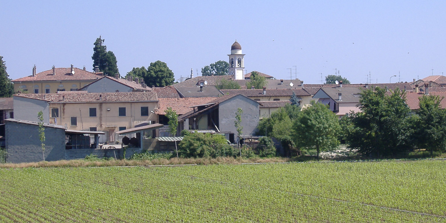 Panorama of Meleti, Italy